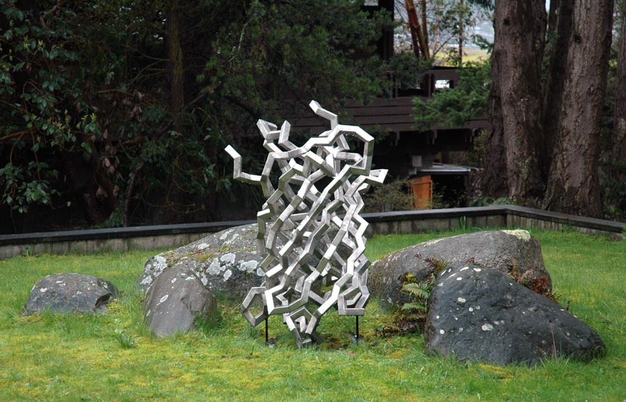 "Steel Jellyfish", 2006. Stainless steel, height: 4'7" (1.40 m). Location: Friday Harbor Labs, San Juan Island, WA